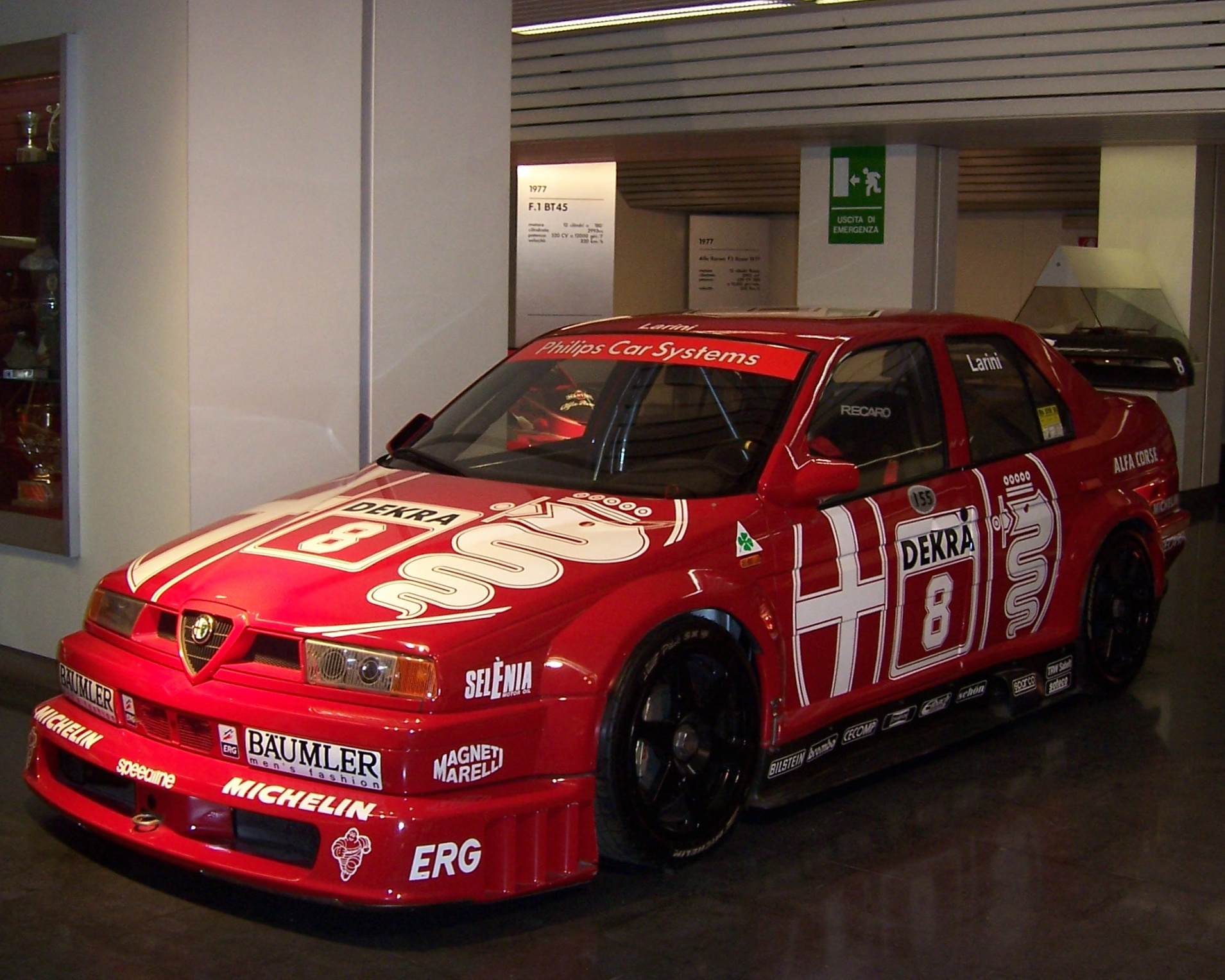 Alfa Romeo 155 V6 Ti DTM 1993 Larini Alfa Corse in "Museo Storico Alfa Romeo" in Arese 20070608